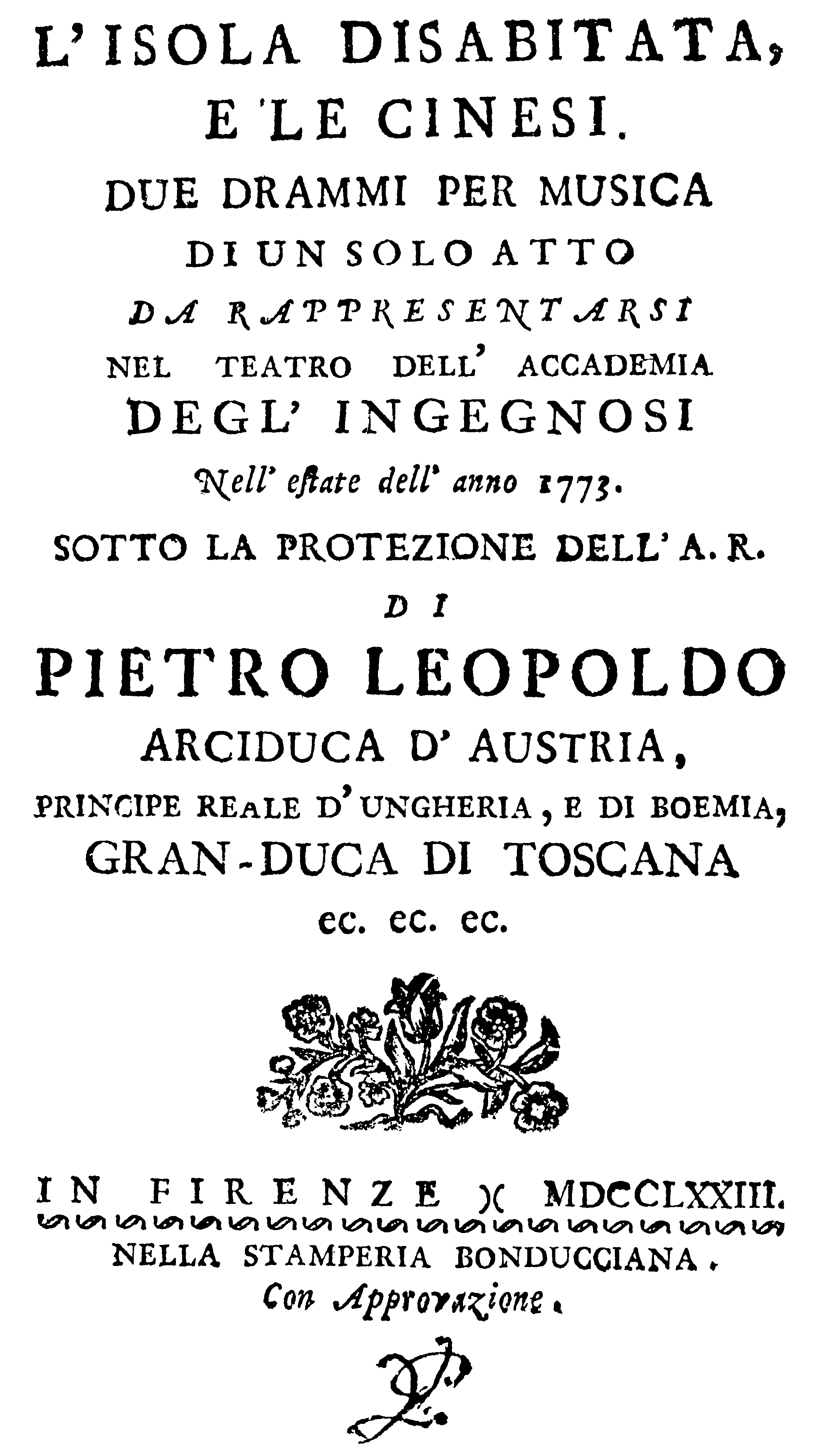 Gennaro Astarita - Le cinesi - titlepage of the libretto - Florence 1773